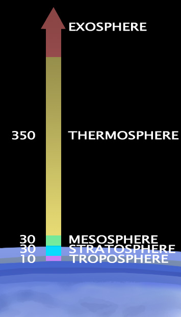 EarthAtmosphere.jpg